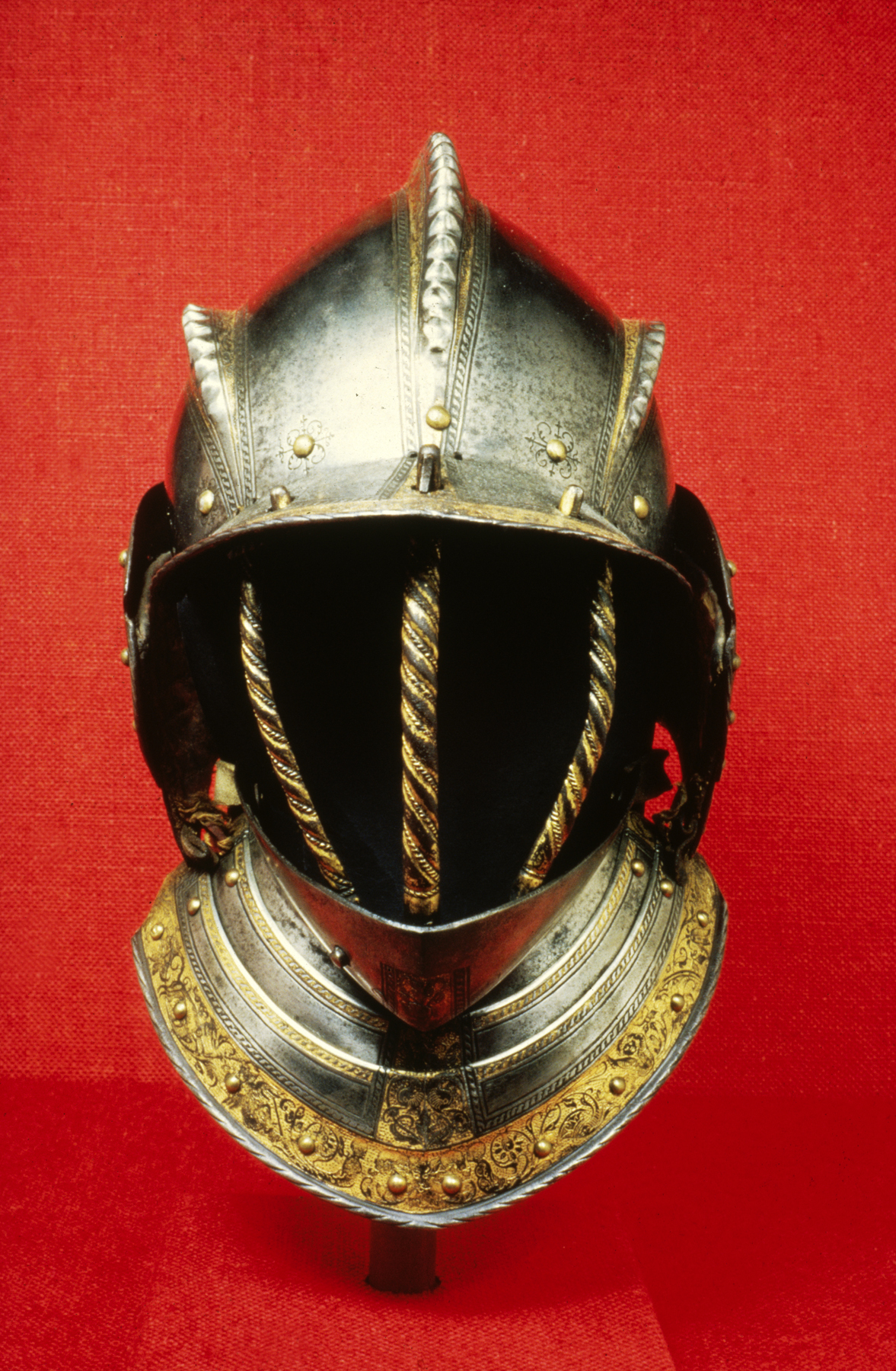 This triple-crested helmet and outer breastplate are from a splendid garniture made for Archduke Maximilian of Austria (1527-76), son of Holy Roman Emperor Ferdinand I, and himself a future emperor. These pieces are for the field-the battlefield or the joust. Commissioned from the famous German armor maker Mattheus Frauenpreiss, this garniture exhibits the restrained magnificence appropriate to Maximilian's status. The reinforcing breastplate consists of two plates that overlap vertically to allow movement. Fitted over the normal breastplate, it provided extra protection in combat. The decoration, consisting of bands with animals and trophies, was etched and gilded by Jörg Sorg. Maximilian participated in the jousts organized on state occasions and was active in military campaigns. The inclusion of his armor in Archduke Ferdinand's Hall of Heroes (within his collection of arms and armor) evoked his valor. A nobleman in the circle of Archduke Albert-Maximilian's son, governor of the Southern Netherlands and himself a fine military commander-would treasure Maximilian's field armor as symbolic of Habsburg family honor as well as a work of art.